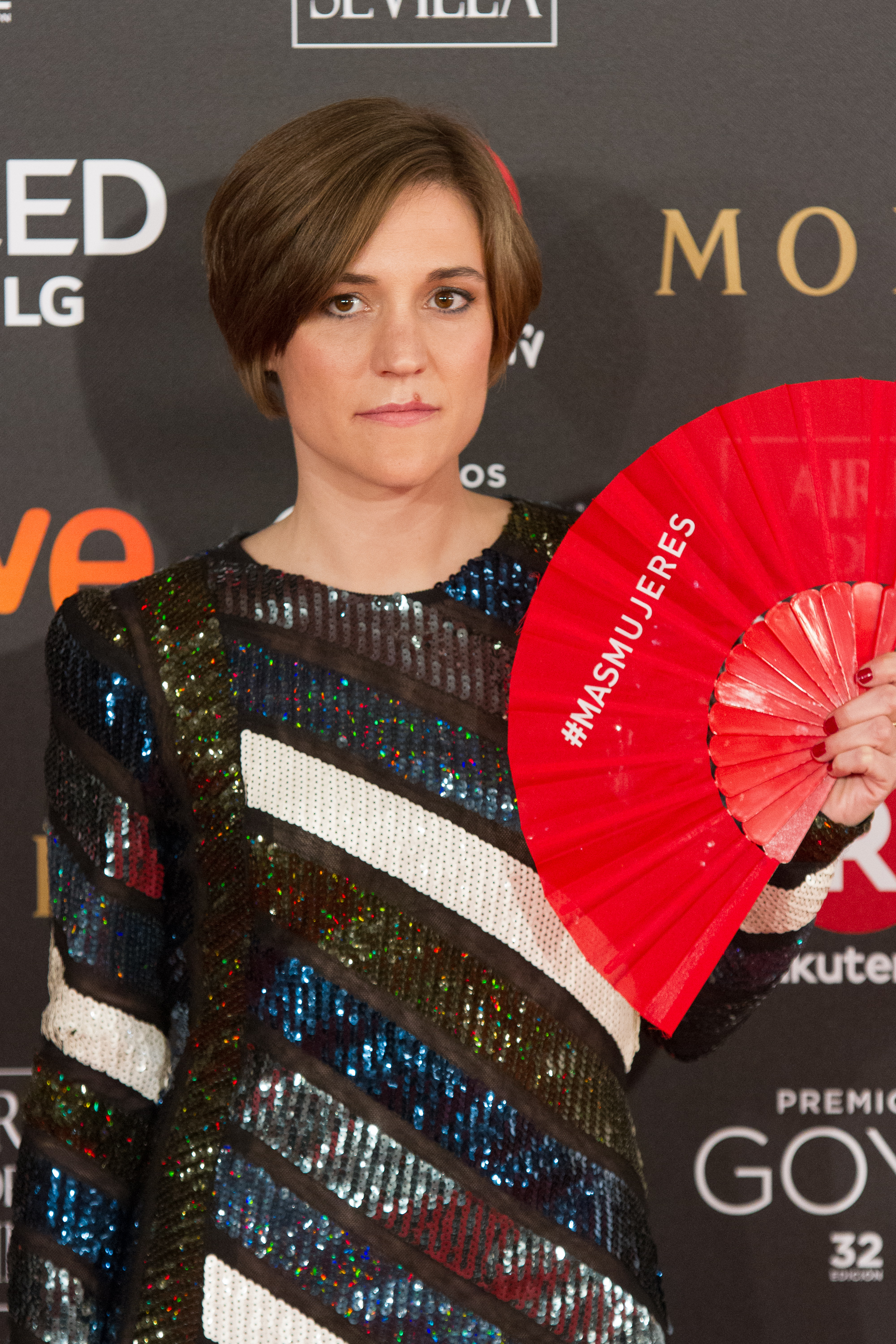 32nd Goya Awards, 2018.